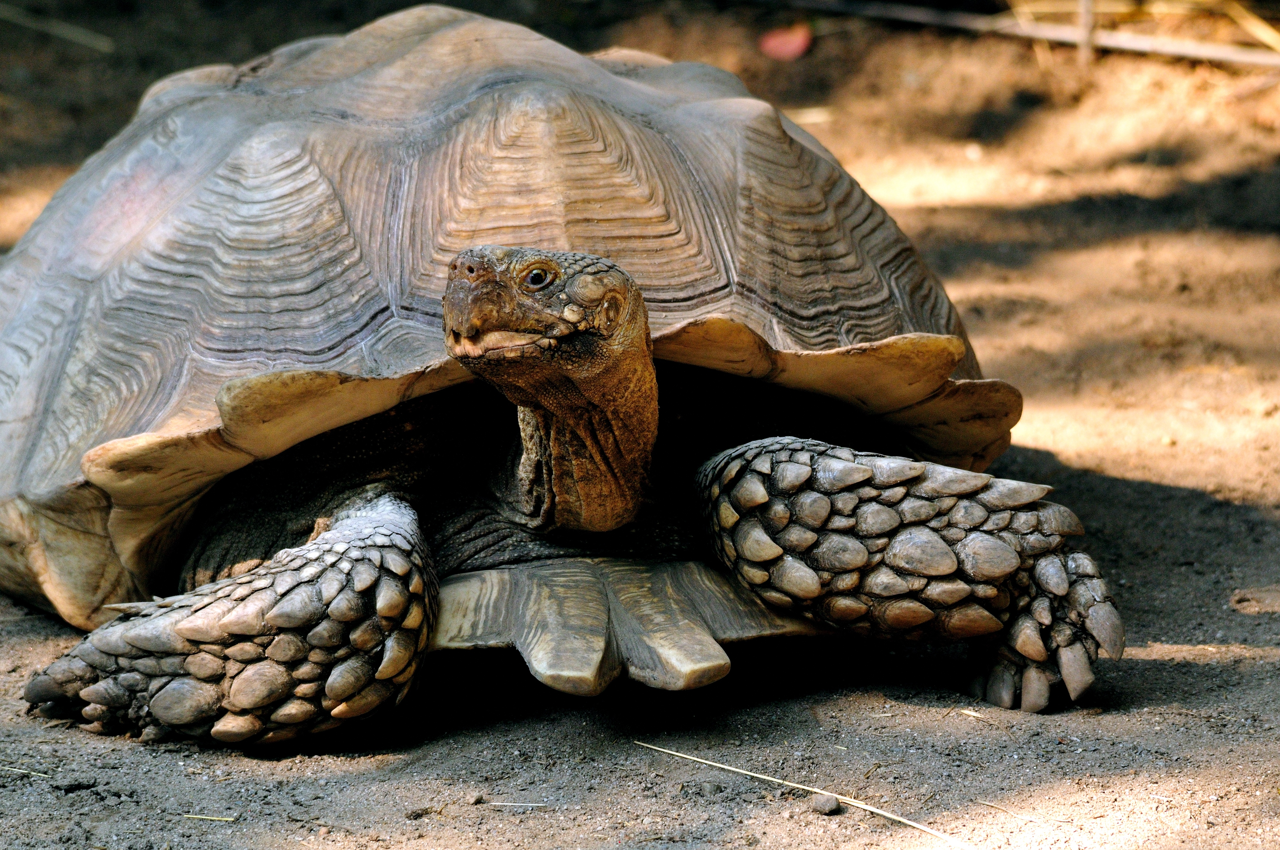 African spurred Tortoise Geochelone sulcata, Roger Williams Zoo, Rhode Island, USA.